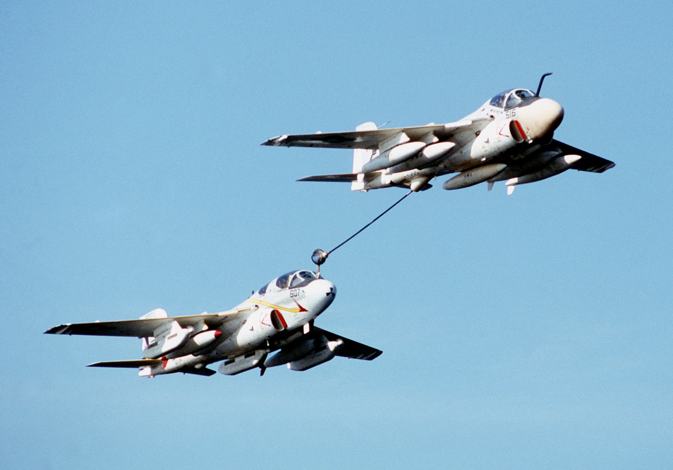 A U.S. Navy Grumman KA-6D Intruder (BuNo 152921) from attack squadron VA-165 Boomers refueling a Grumman EA-6B Prowler (BuNo 161119) from tactical electonic warfare squadron VAQ-134 Garudas on 10 February 1982. Both squadrons were assigned to Carrier Air Wing 9 (CVW-9) aboard the aircraft carrier USS Constellation (CV-64) for a deploymant to the Western Pacific and the Indian Ocean from 20 October 1981 to 23 May 1982.